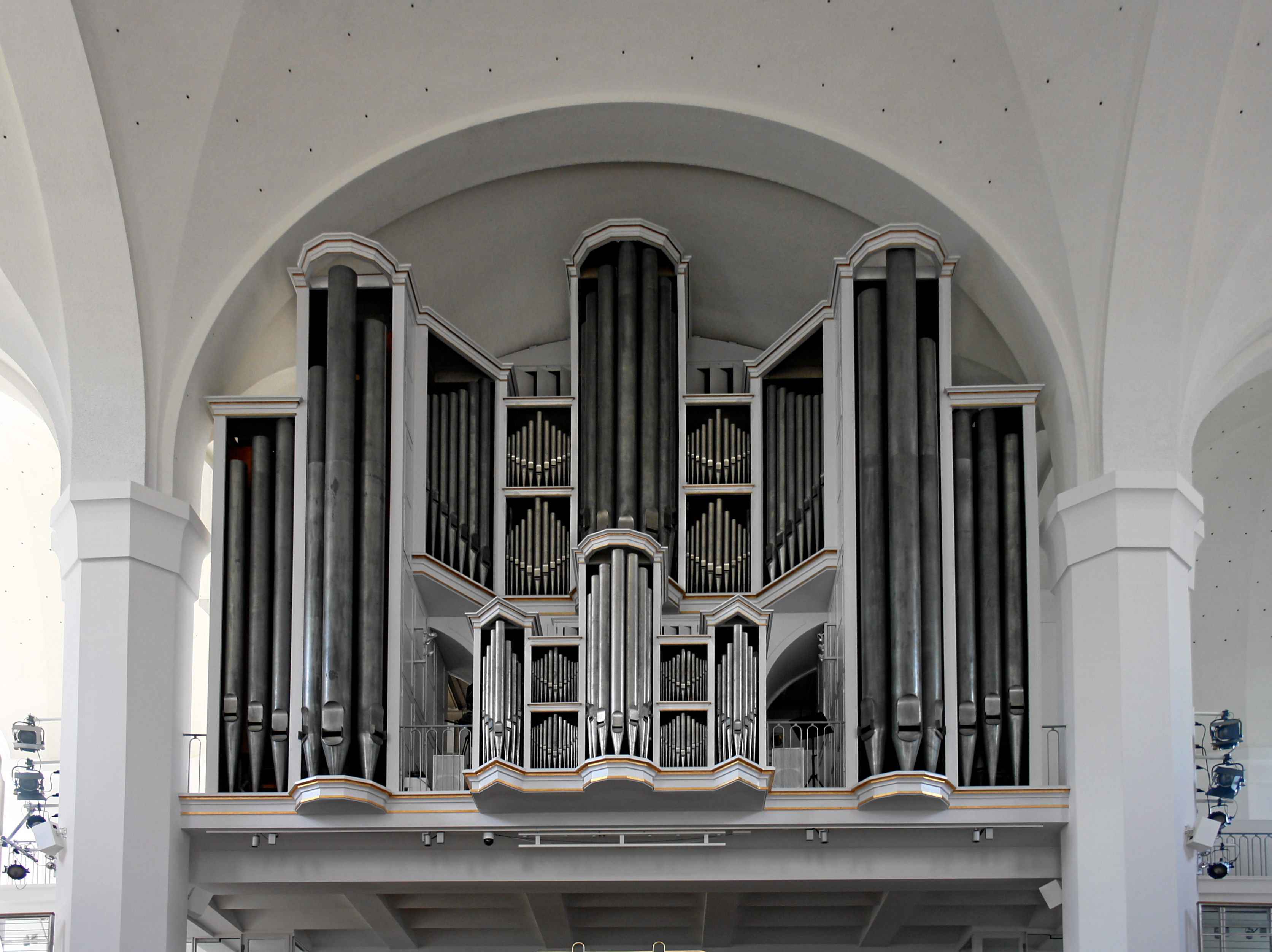 Düsseldorf, Germany. Protestant church Johanneskirche. Pipe organ.